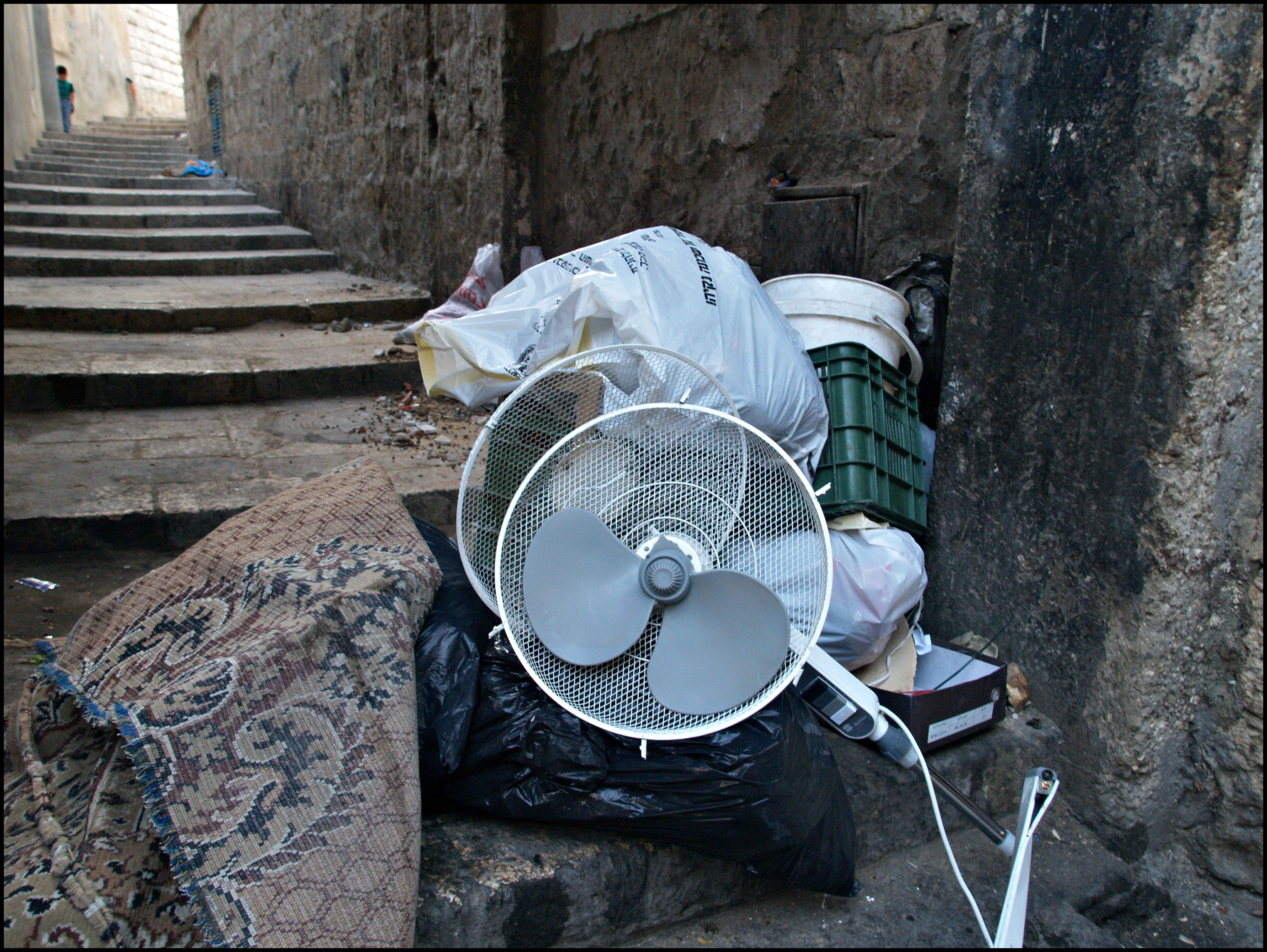 Old Jerusalem, muslim quarter, Barquq street (corner of Haguy street) near the (former) fourth station - Jesus Christ cross way by Dainis Matisons